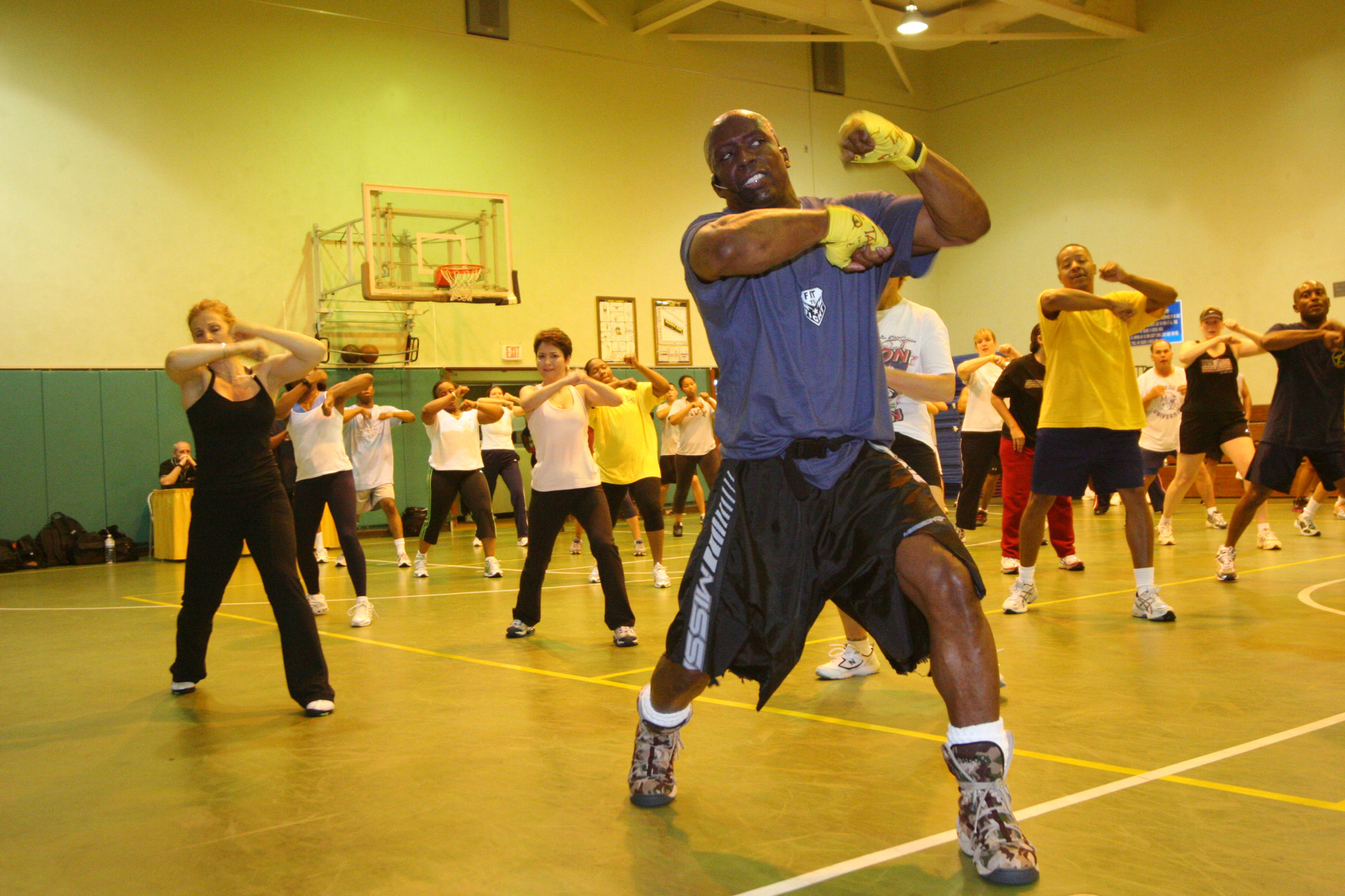 Okinawa, Japan (April 11, 2006) - "Tae Bo" creator, Billy Blanks holds a class for service members and their dependents on his famous roll boxing Tae Bo techniques. Armed Forces Entertainment is sponsoring Blanks’ tour, which provides him with the opportunity to exercise and motivate military personnel at Camp Shields, Kadena Air Base, Camp Foster and Camp Hansen. More than 1,000 Sailors, Marines, airmen, soldiers and dependents exercised with Blanks during his tour. Blanks has also worked with U.S. military members stationed in Iraq, Bosnia, Kosovo, Sarajevo, Greece, Africa, Germany and Italy. U.S. Navy photo by Journalist 1st Class Mark Rankin (RELEASED)